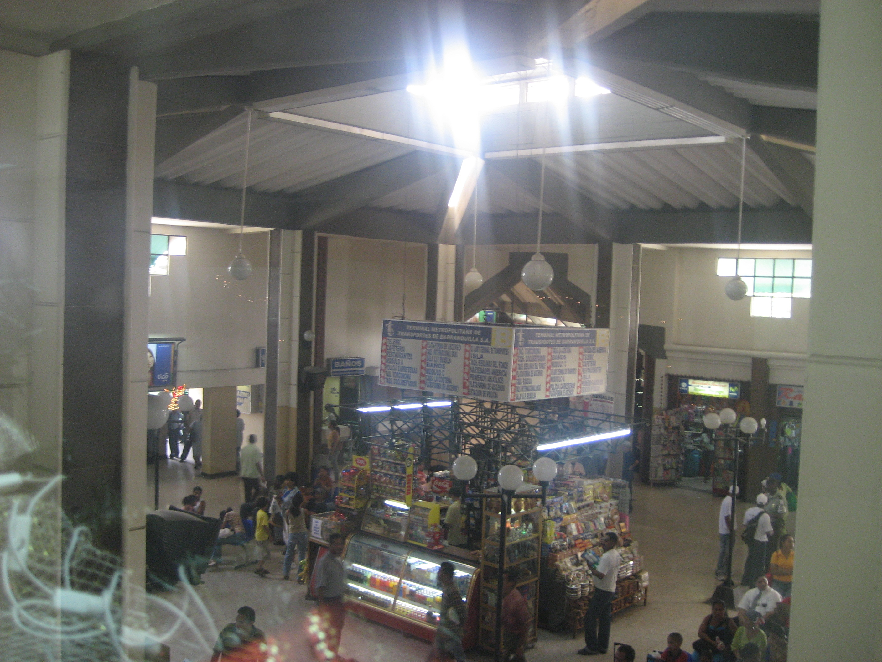 Image of Barranquilla, Colombia